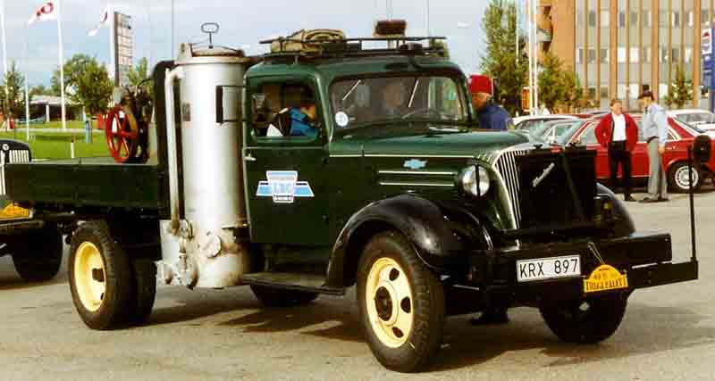 Chevrolet HS 157 D Truck 1937, probably Model SD (157" wheelbase) or maybe SB (131.5")